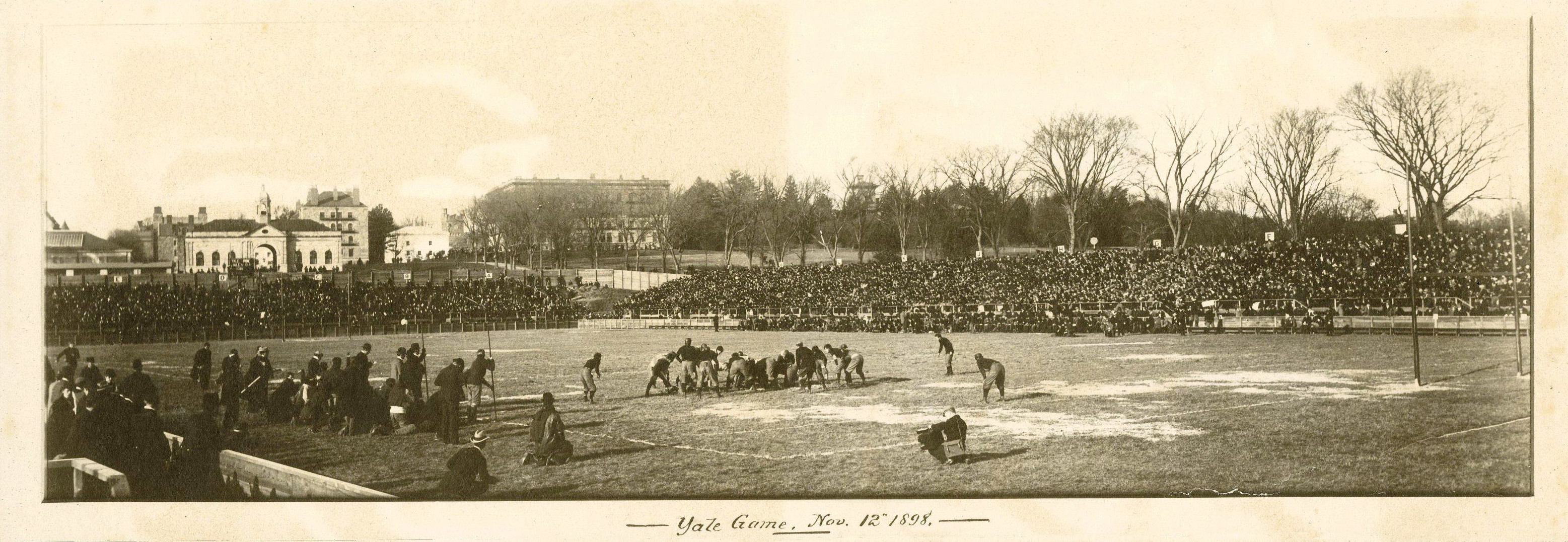 Panoramic photograph of a Princeton v Yale game, American football.